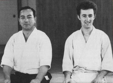 Koichi Tohei Sensei, senior Aikido instrutor with Alan Ruddock in Iidabashi dojo Japan, 1960s.